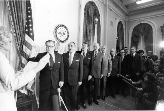 Swearing-in Ceremony of the Rockefeller Commission, the 1975 United States President's Commission on CIA activities within the United States, headed by Nelson Rockefeller: Members included Nelson A. Rockefeller, Lyman L. Lemnitzer, Ronald Reagan, Edgar F. Shannon, Jr., David W. Belin, John T. Connor, C. Douglas Dillon, Erwin N. Griswold, and Lane Kirkland